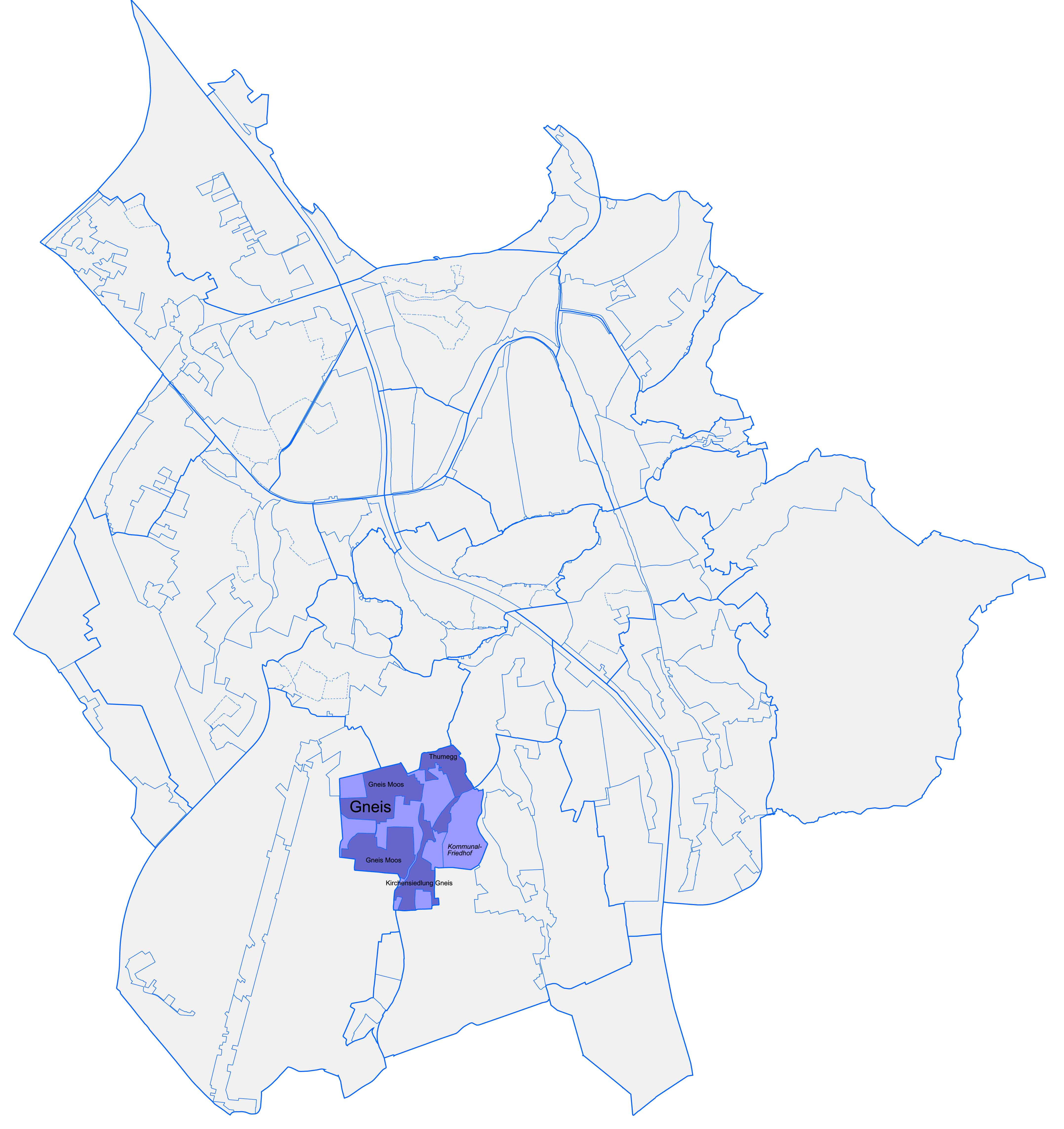 a quarter of teh town of Salzburg: Gneis